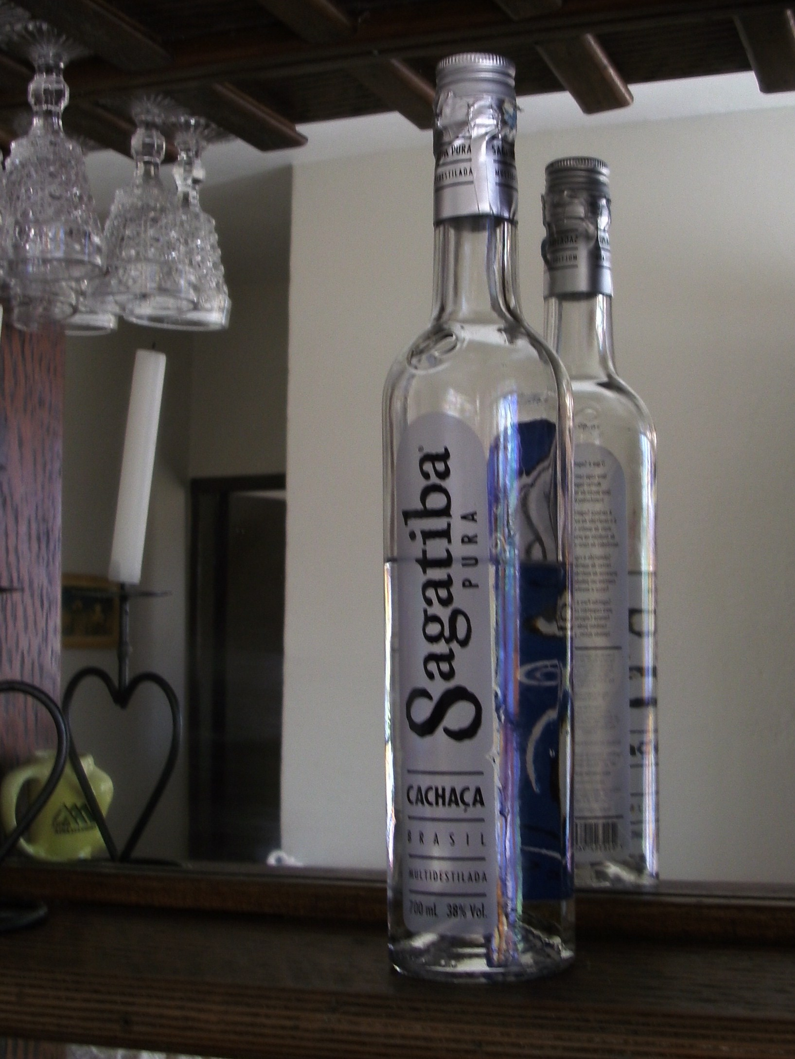 Sagatiba made in Brazil